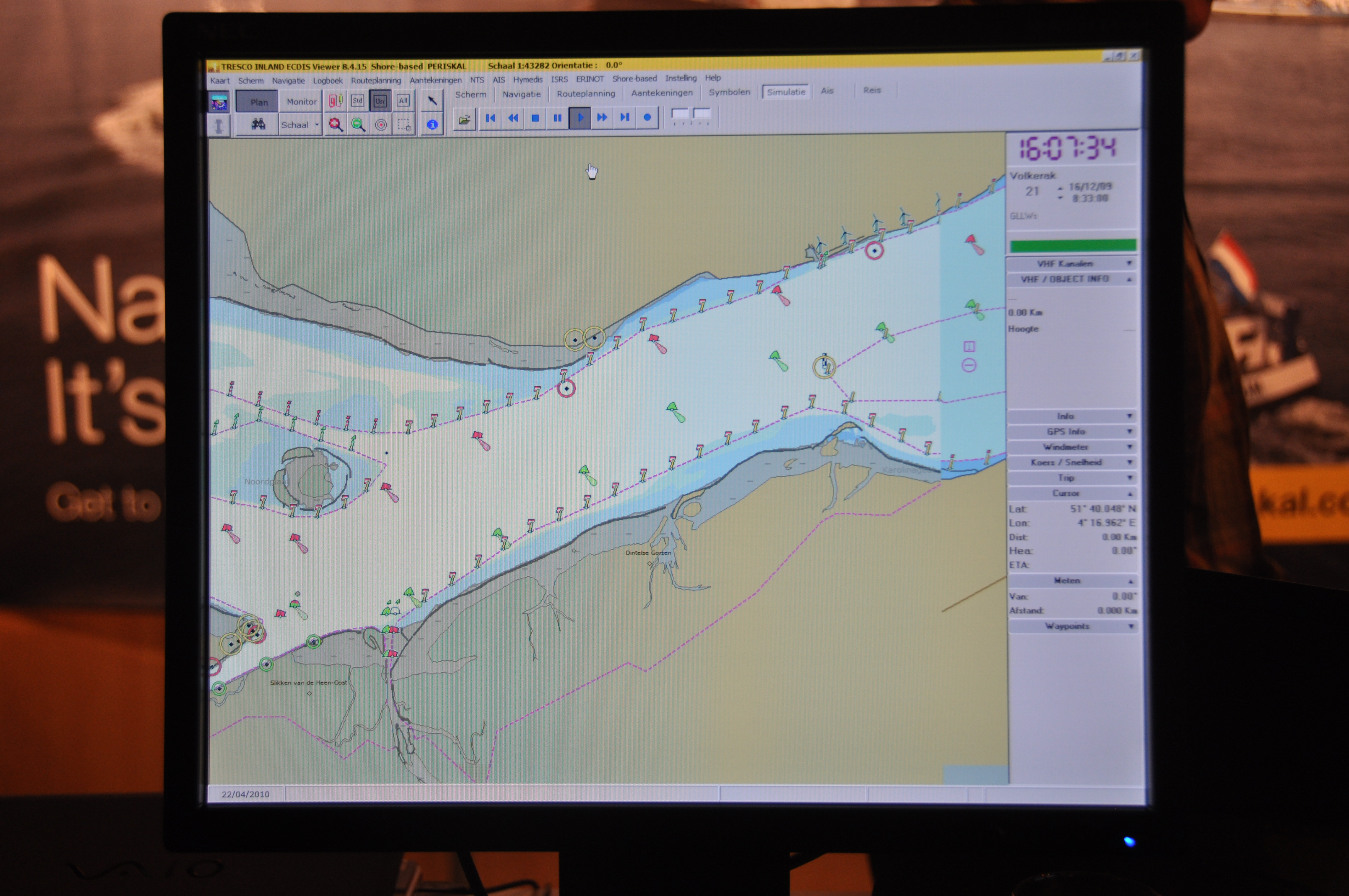 Construction & shipping industry 2010